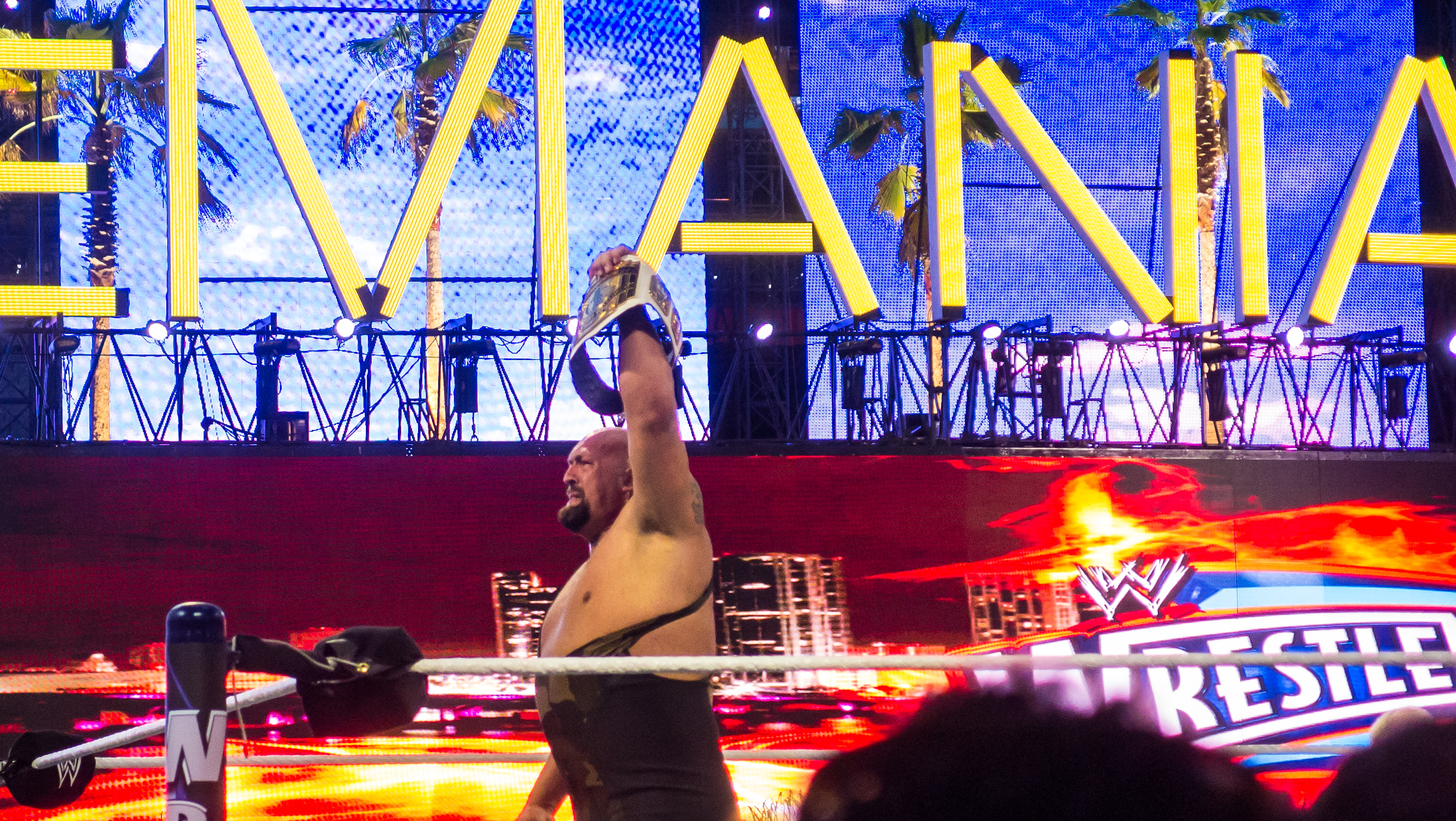 Big Show at Wrestlemania XXVIII